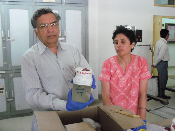 Professor T D Dogra with Anupuma Raina at FSL Madhuban, Karnal for Diatom test.